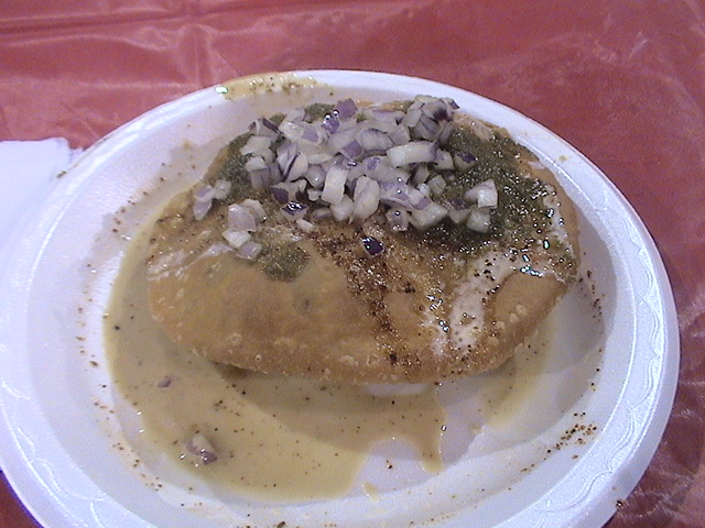 Kachori - an Indian dish that is a hollow pastry with green chutney and onions on top.